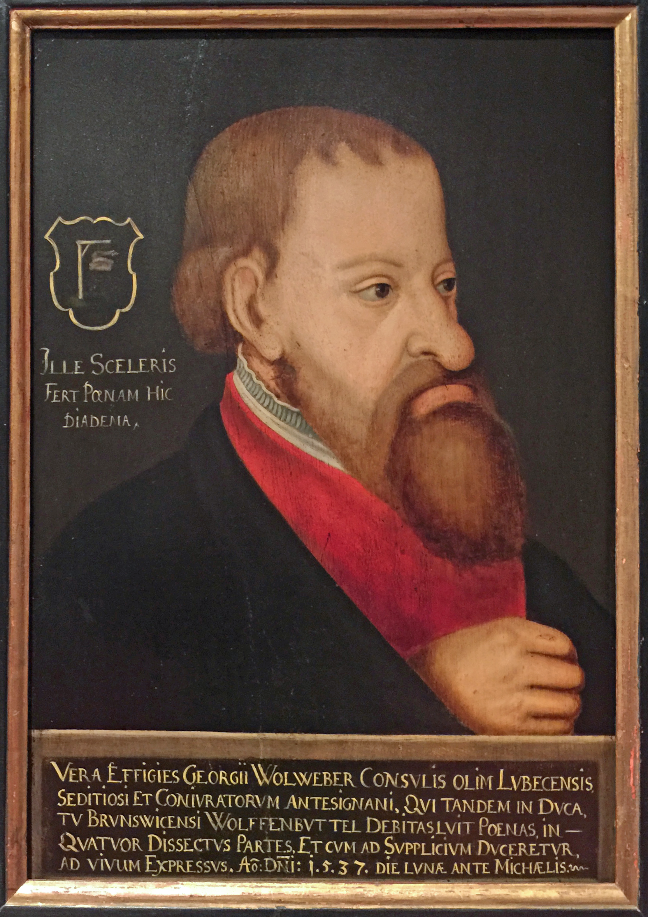 Mock portrait of former Lübeck mayor Jürgen Wullenwever, 1537, oil on oak. Original painting in St. Annen Museum, Lübeck, inv. no. 2204a (from Lübeck municipal library). Inscription in Latin: Vera Effigies Georgii Wolweber Consulis olim Lubecensis / Seditiosi et Coniuratorum antesignani, Qui tandem in Duca/tu Brunswicensi Wolffenbuttel Debitas luit Poenas, in – / Quatuor Dissectus Partes. Et cum ad Supplicium Duceretur, / ad vivum Expressus. Anno Domini 1537 die lunae ante Michaelis. English translation: True image of Georg Wolweber, former mayor of Lübeck, seditionist and champion of conspirators, who finally suffered the deserved punishment, being quartered in the duchy of Brunswick-Wolfenbüttel. And as he was led to his execution, portrayed from the life in the year of the Lord 1537, on monday before Michaelmas.